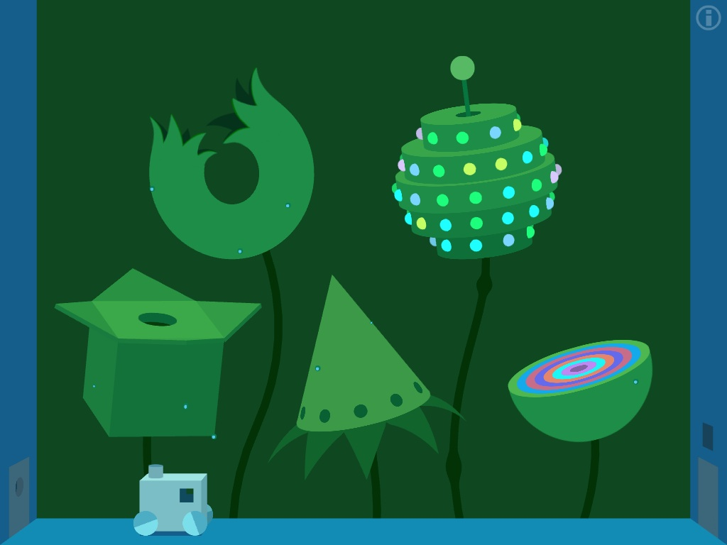 Windosill screenshot